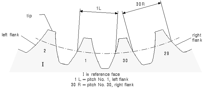 Internal numbering